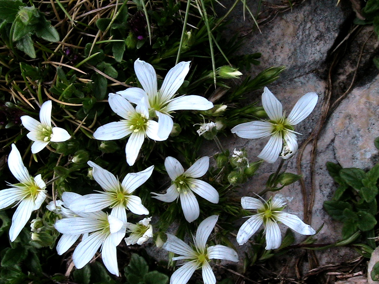 Arenaria grandiflora. In la Bòfia, la Coma i la Pedra (Solsonès - Catalunya). To 2.150 m. altitude